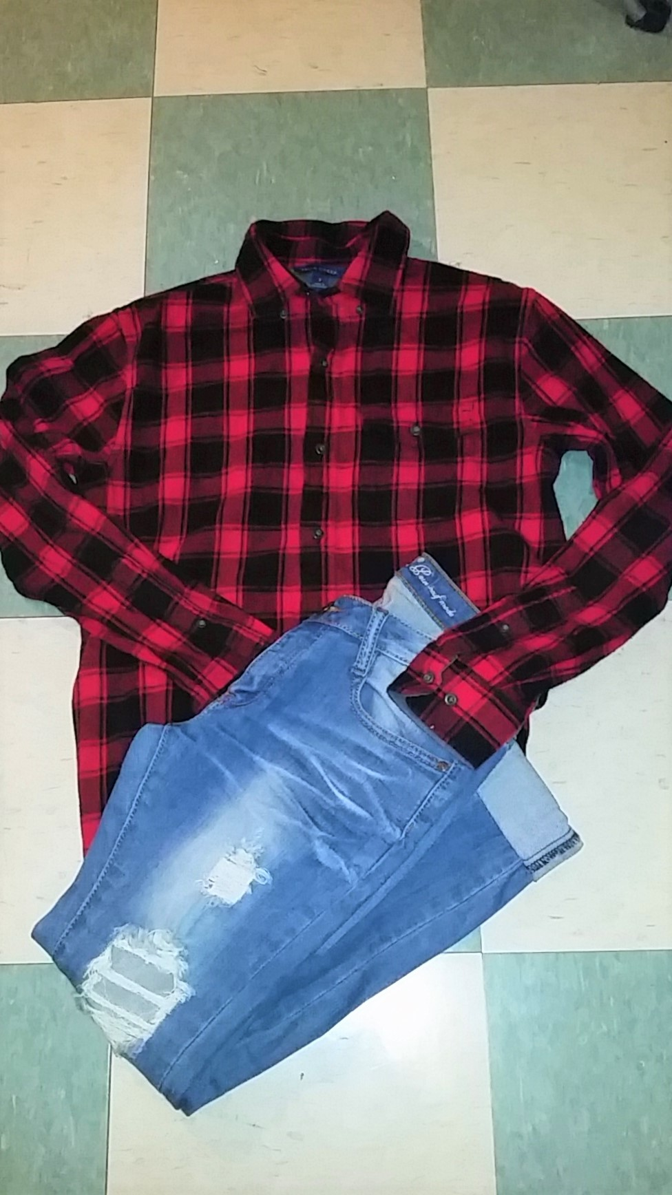 Flannels and ripped jeans were worn during the 90s.